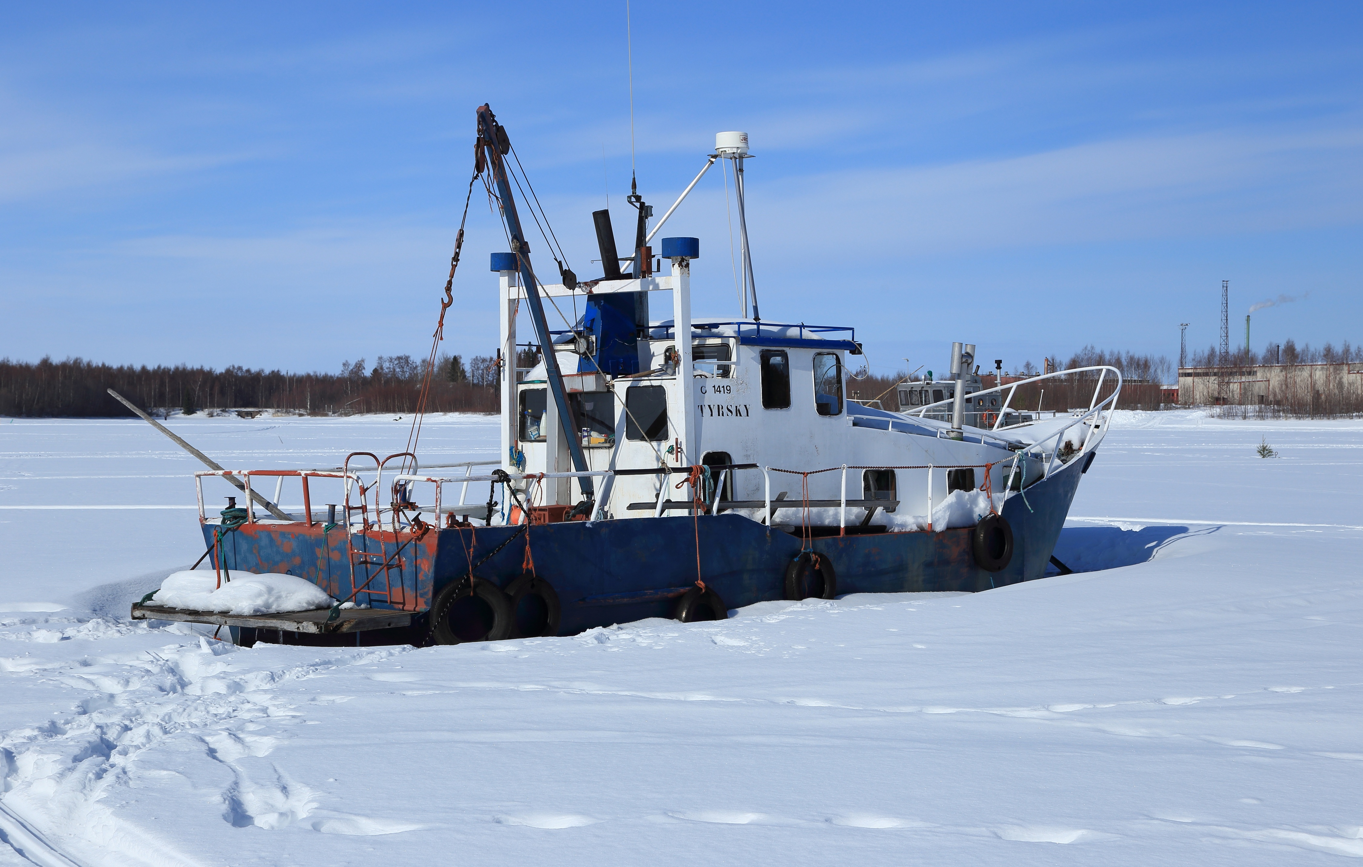 A fishing ship in the frozen Kurtinhauta bay in Martinniemi, Oulu.